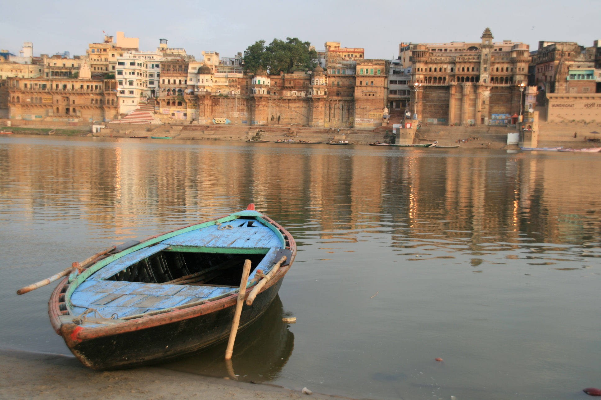 Varanasi Ghats, from the left: Digpatia Ghat, Causatthi Ghat, Rana Mahal Ghat, Darbhanga Ghat, Munshi Ghat